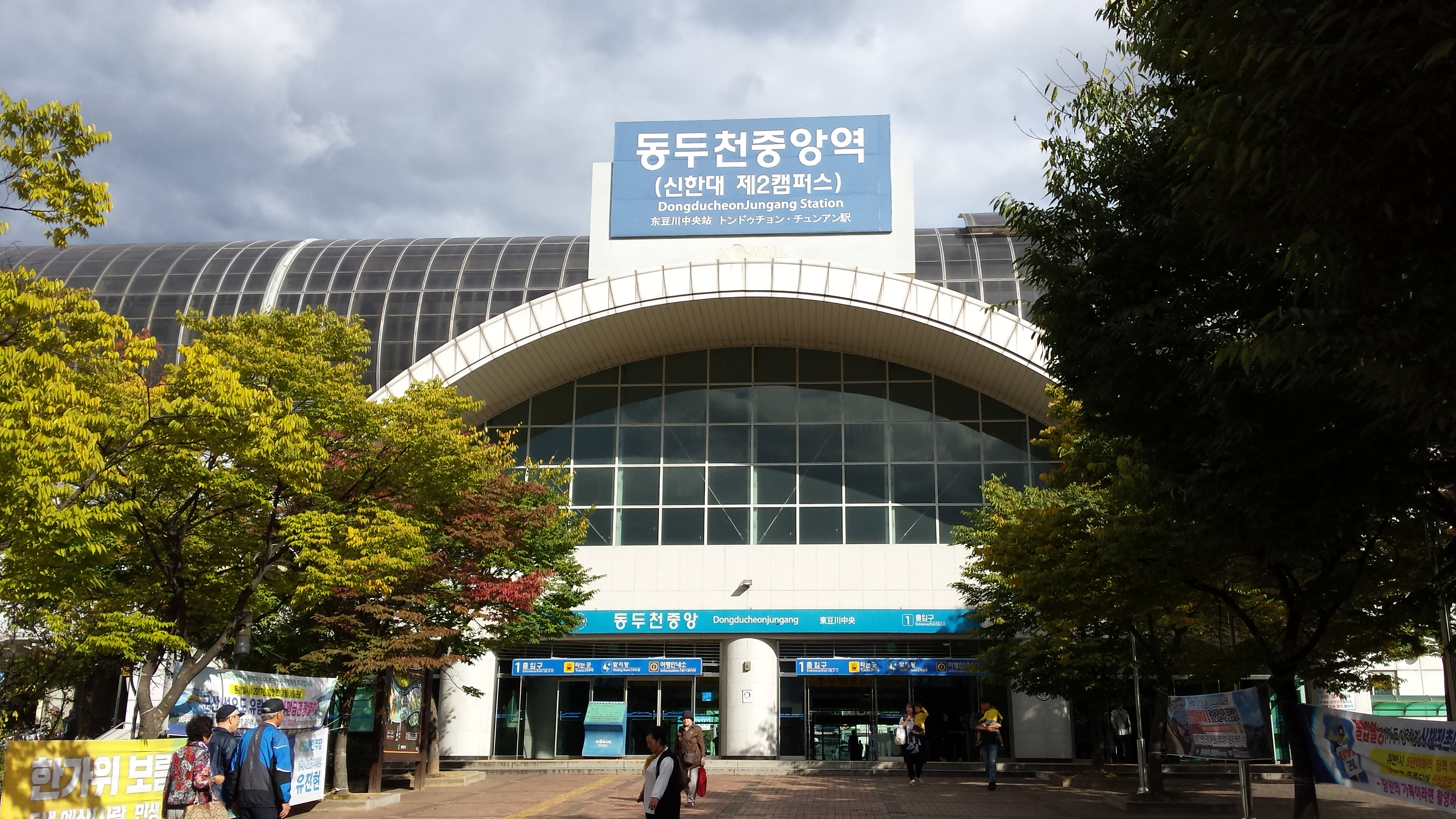 Photo of Dongducheonjungang train station in South Korea.